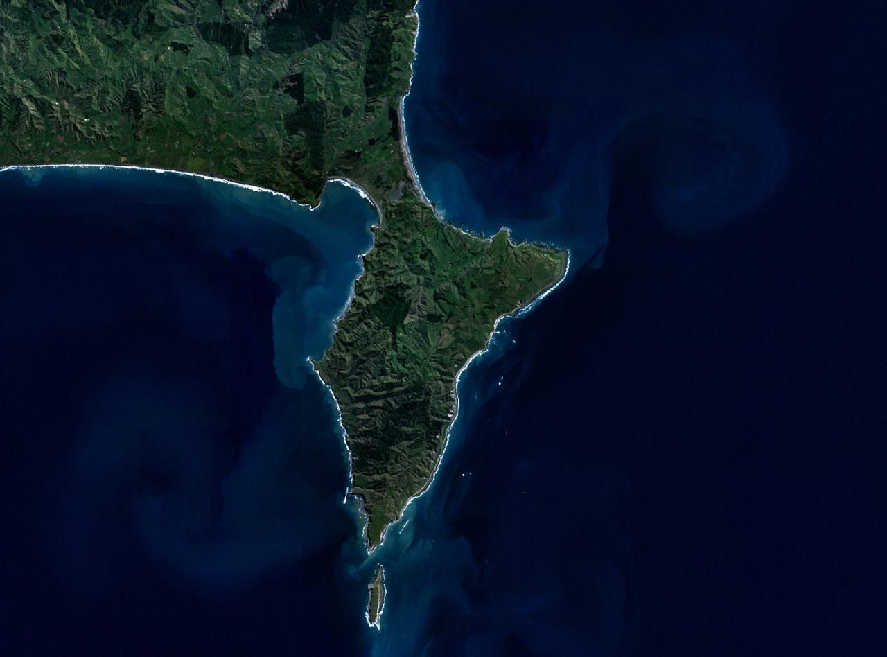 NASA World Wind landsat composite image of New Zealand's Mahia Peninsula